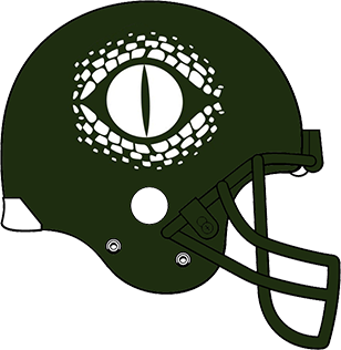 Helmet of LFA team Raptors de Naucalpan.